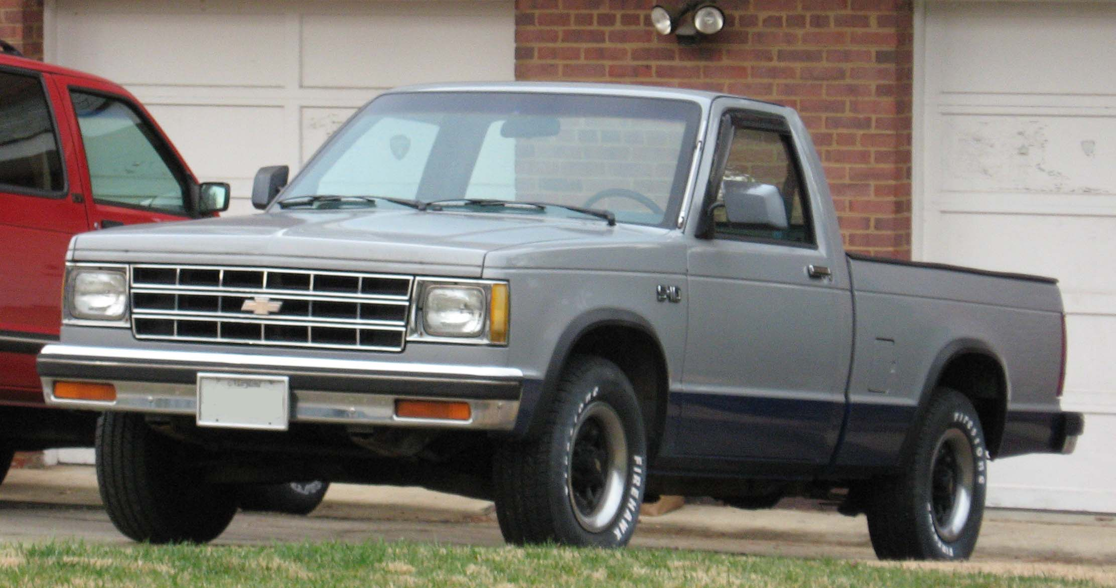 1983-1993 Chevrolet S-10 photographed in USA.